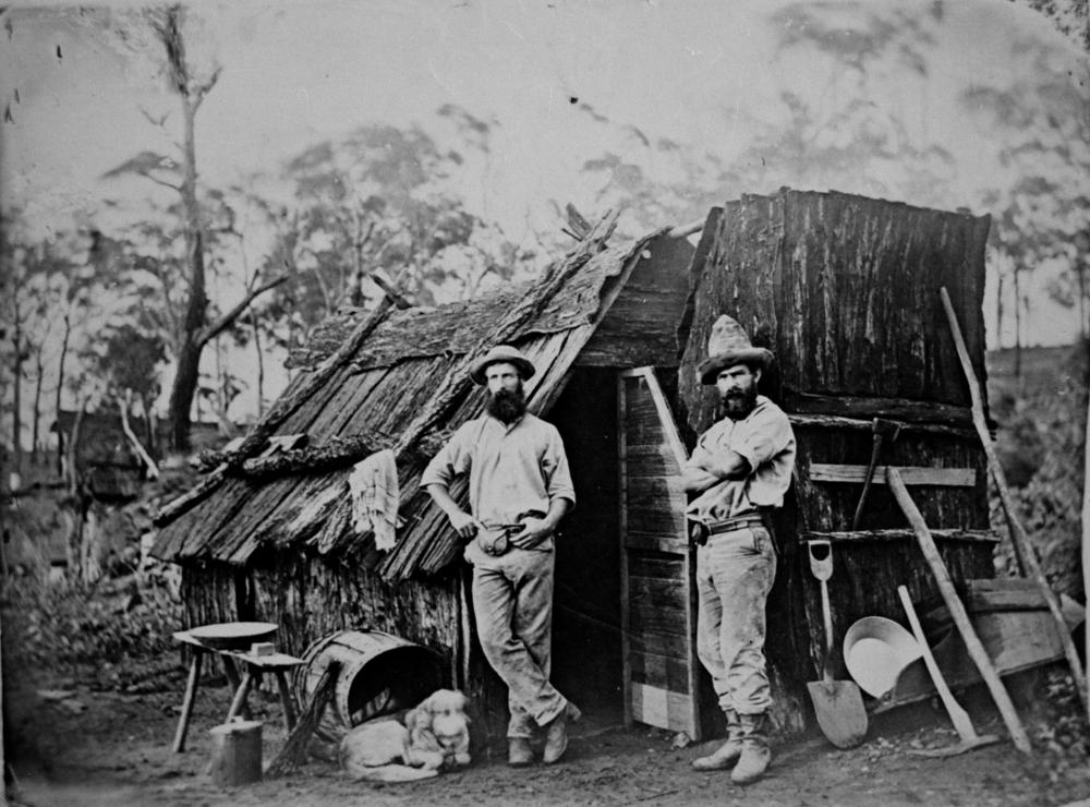 Gold miners outside a bark hut, Queensland, ca. 1870 Two gold miners dressed in working clothes outside a slab bark hut with mining tools nearby.